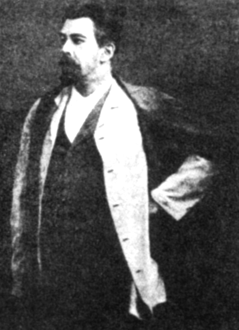 Konstantin Stanislavski as Astrov in Anton Chekhov's Uncle Vanya (Провинциалка) at the Moscow Art Theatre in 1899.